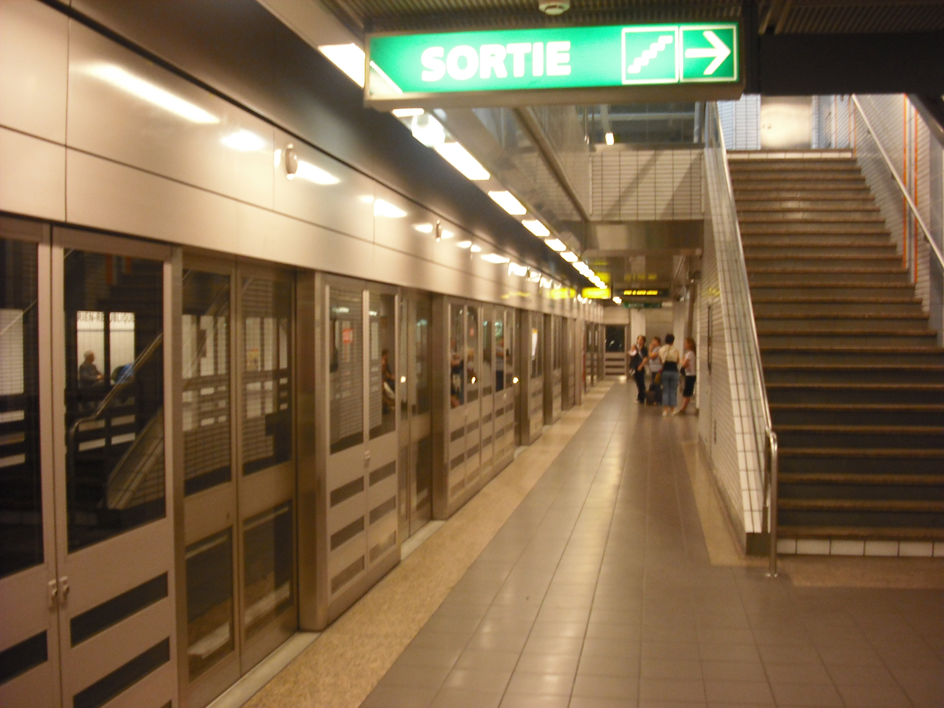 St-Cyprien Republique station on Line A of the Toulouse Metro